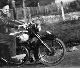 Peter Benjamin Graham test riding his BSA 500 motorcycle in Melbourne, just before heading off to Alice Springs